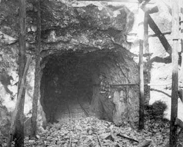 Perfuration of a tunnel on the Pevide range, during the construction of the Lena mining railway, in Portugal, in 1927.